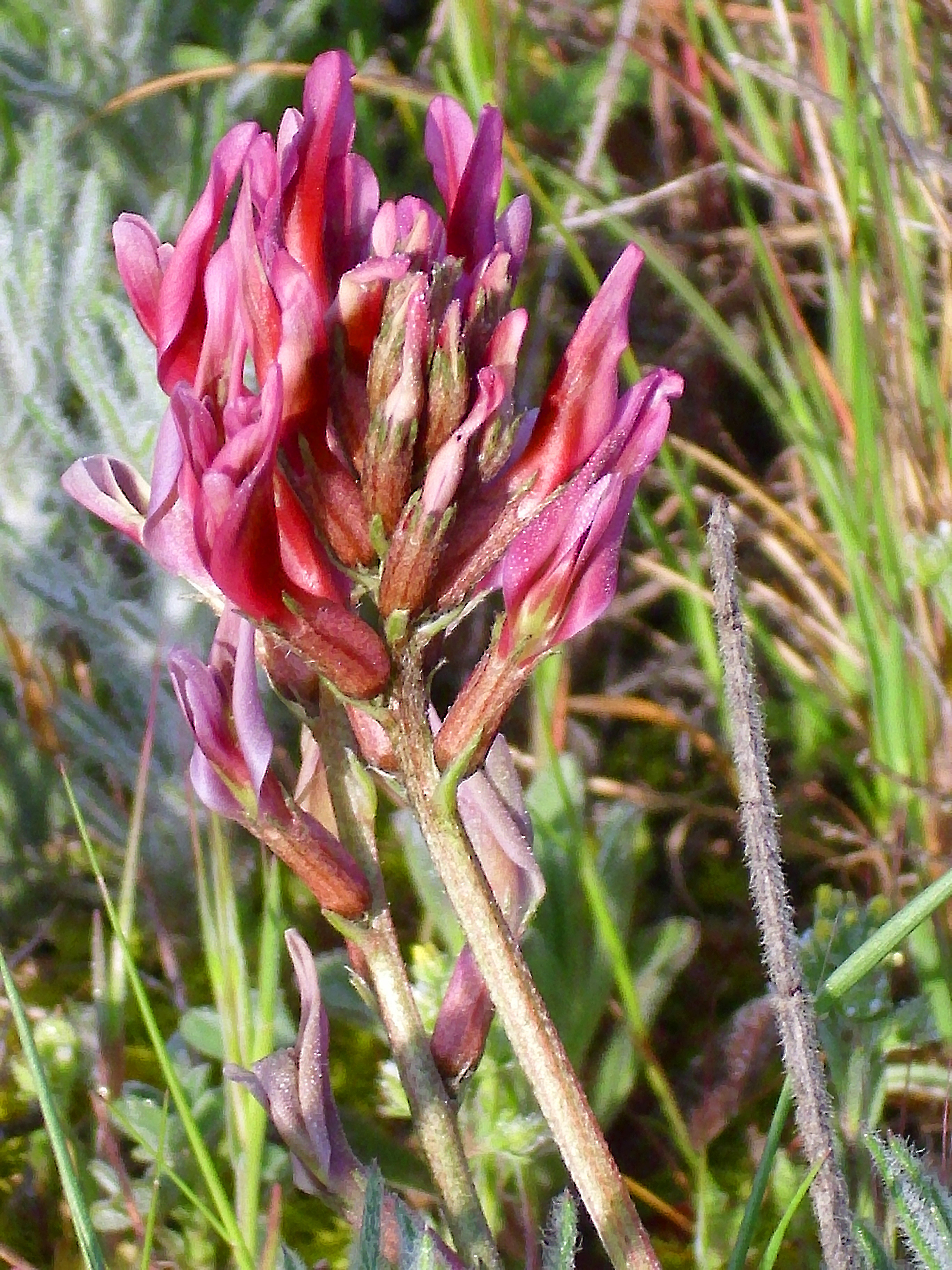 Astragalus incanus inflorescence Campo de Calatrava, Spain